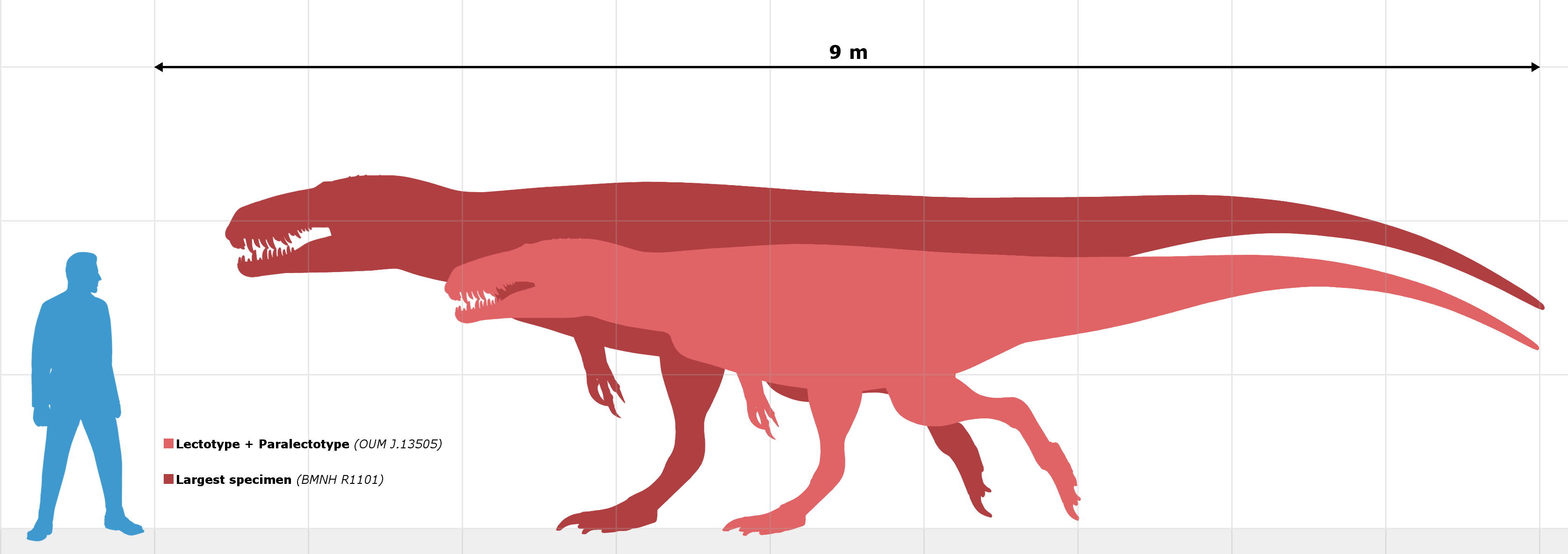 Megalosaurus size chart, representing the largest specimen, BMNH R1101, an ilium (measurements from Benson 2010)